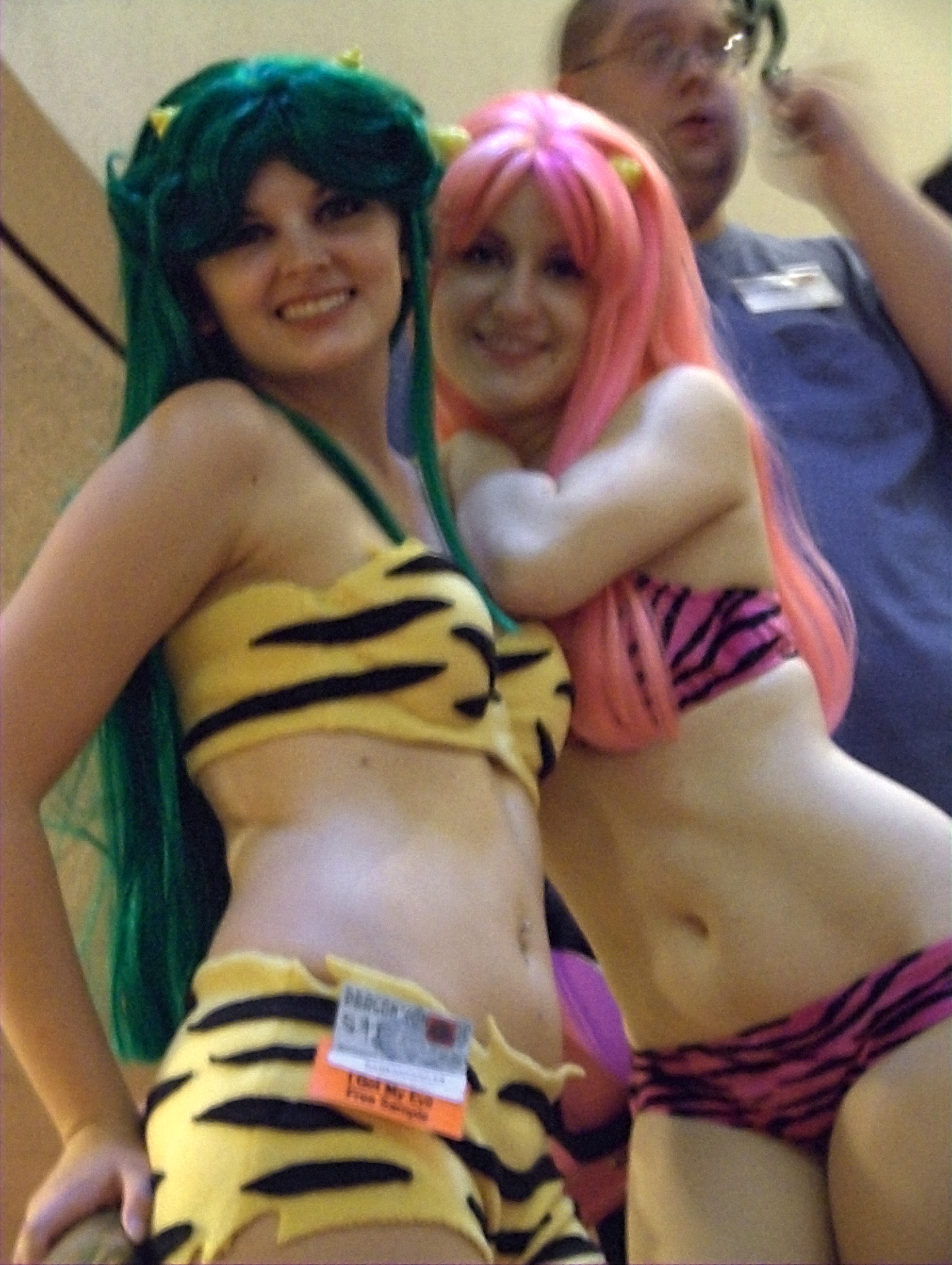 Two cosplayers cosplaying characters from manga/anime Urusei Yatsura (on the left, Lum)